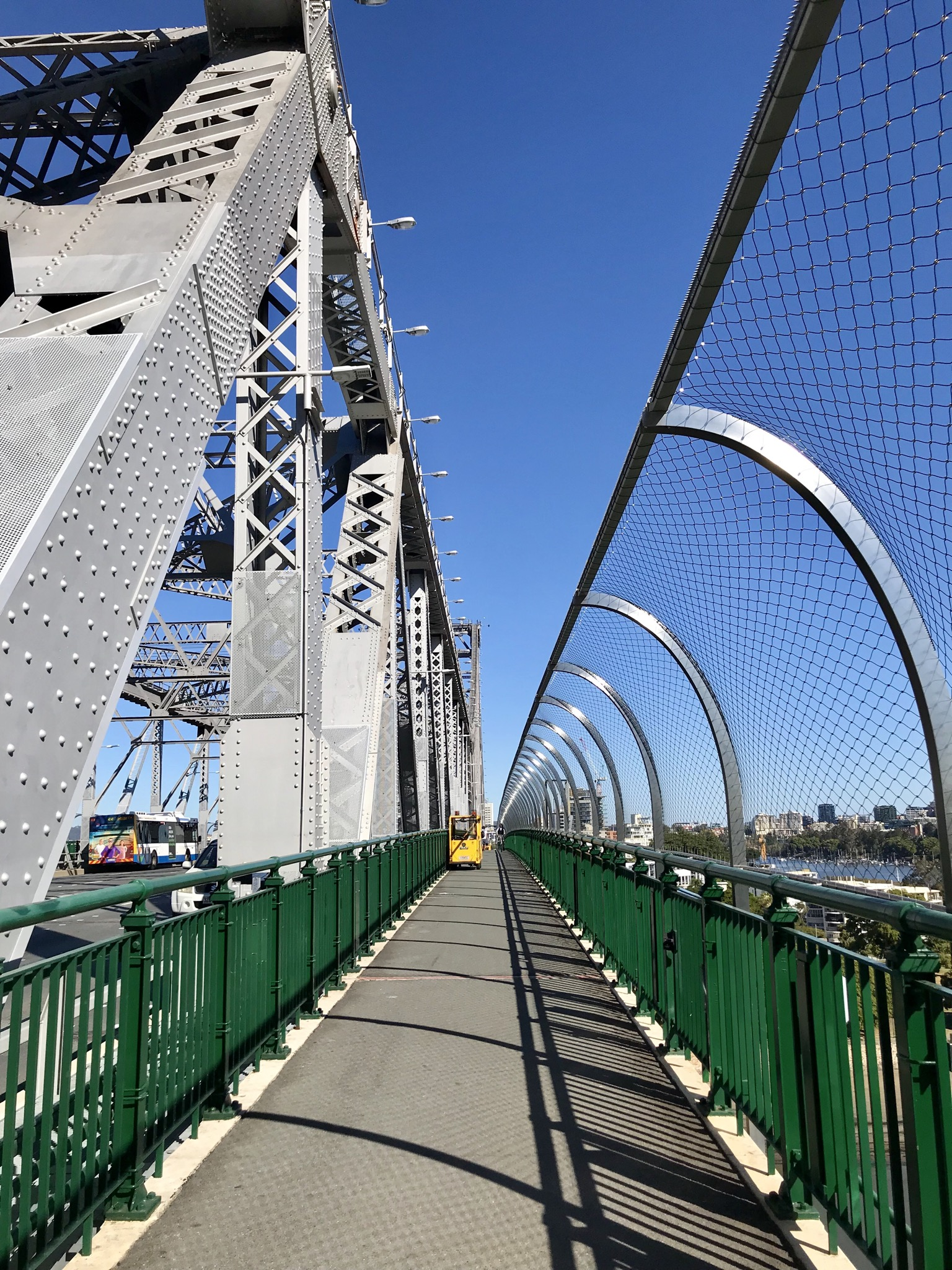 Safety barrier along pedestrian footpath at Story Bridge, Brisbane